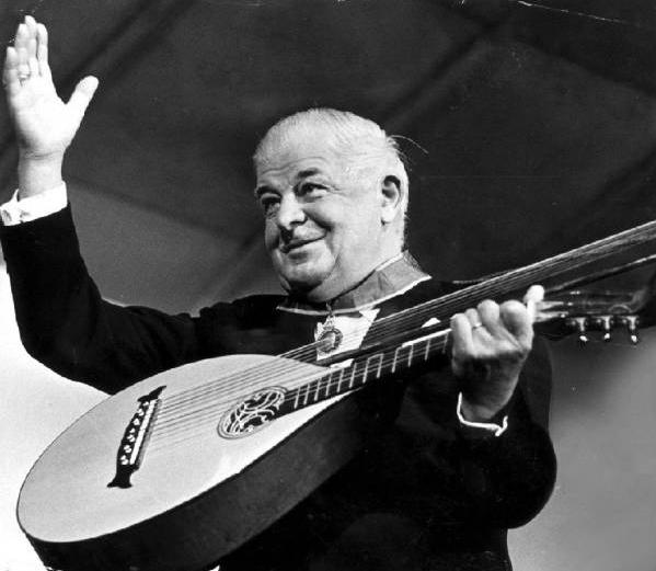 Photo of Evert Taube on stage 1961 playing a Levin lute.